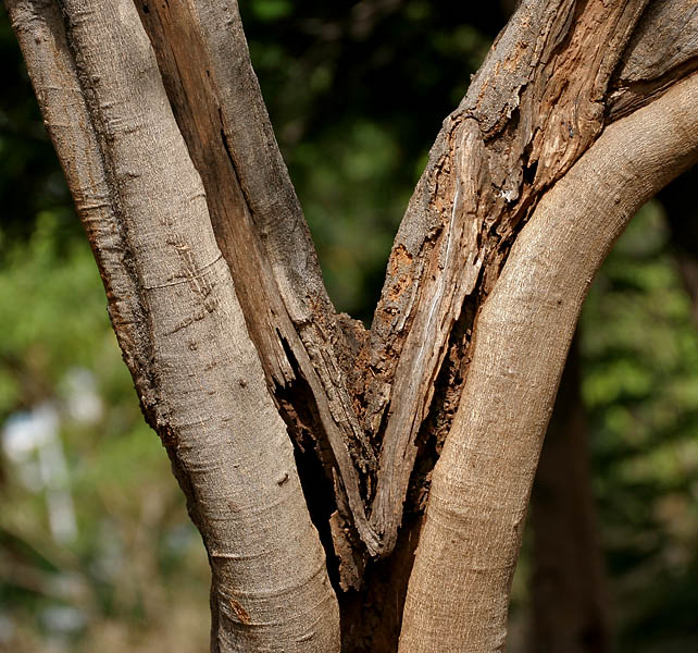 Karanj Pongamia pinnata in Hyderabad , India.